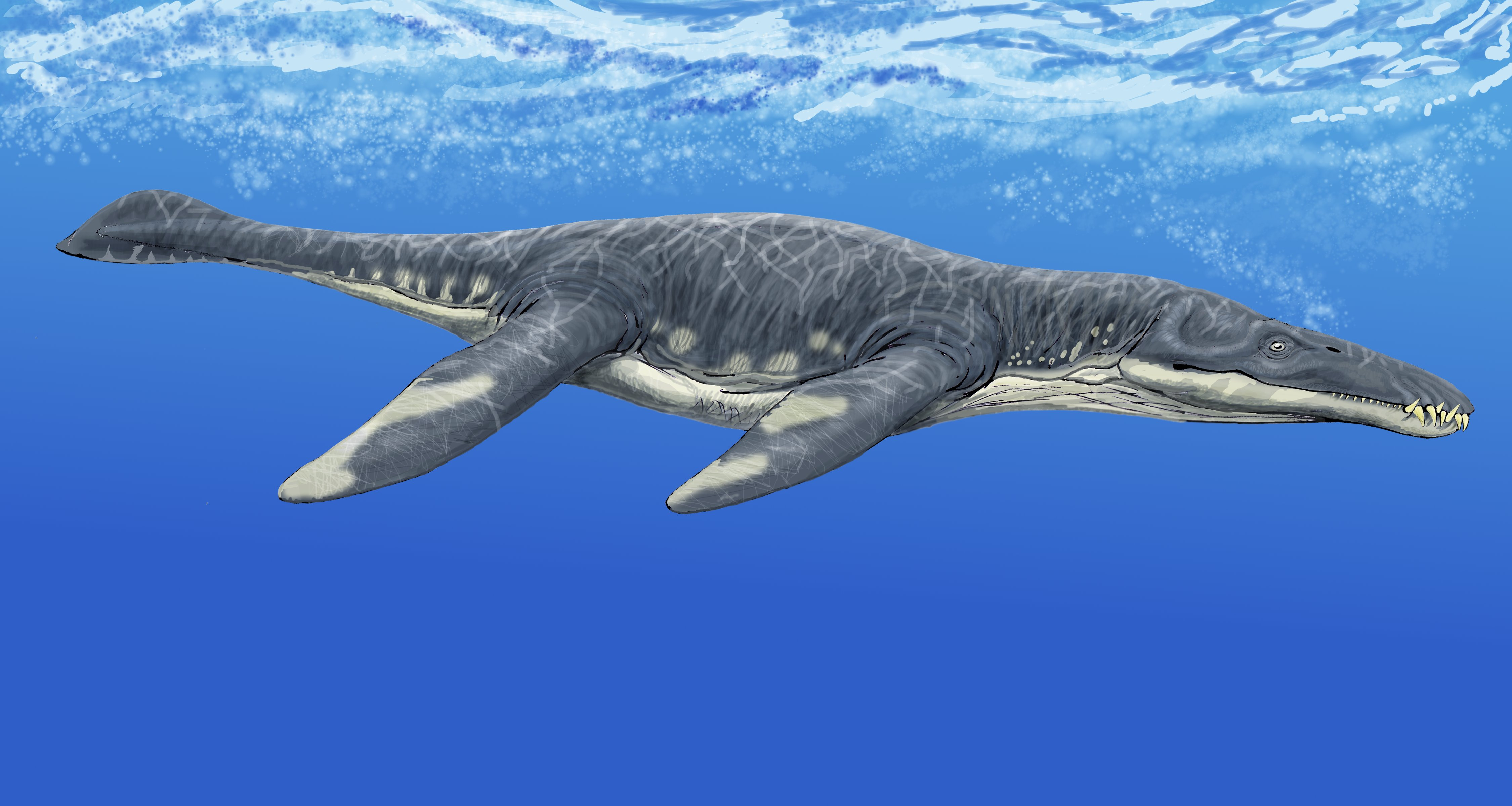 Liopleurodon reconstruction based on skeletal from Newman and Tarlo (1967)